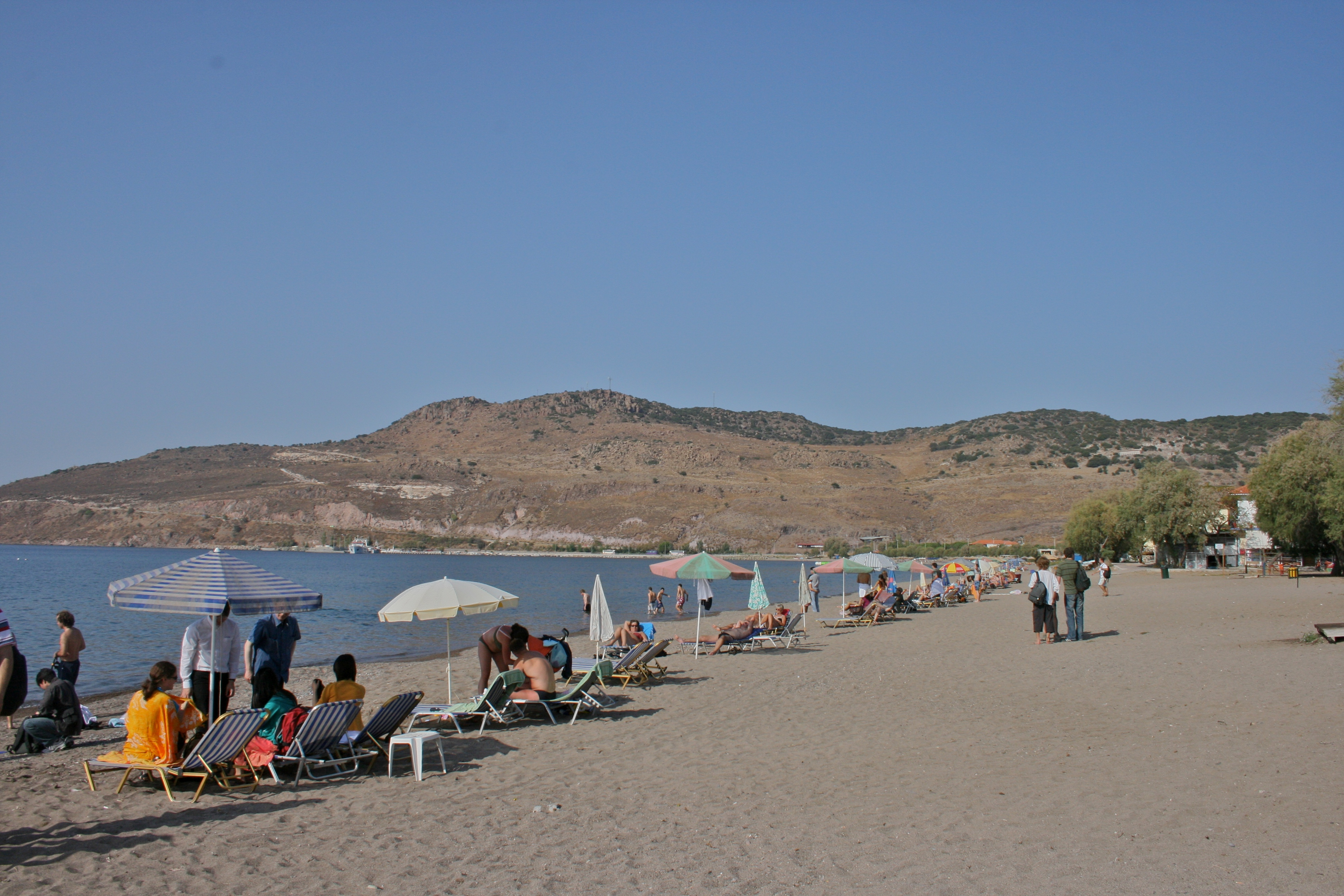 The beach at Petra, Lesbos, Greece.